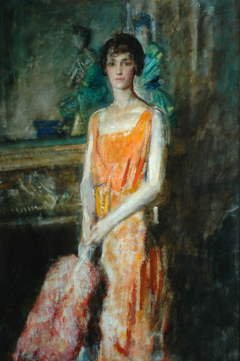 Lois Sturt, 3